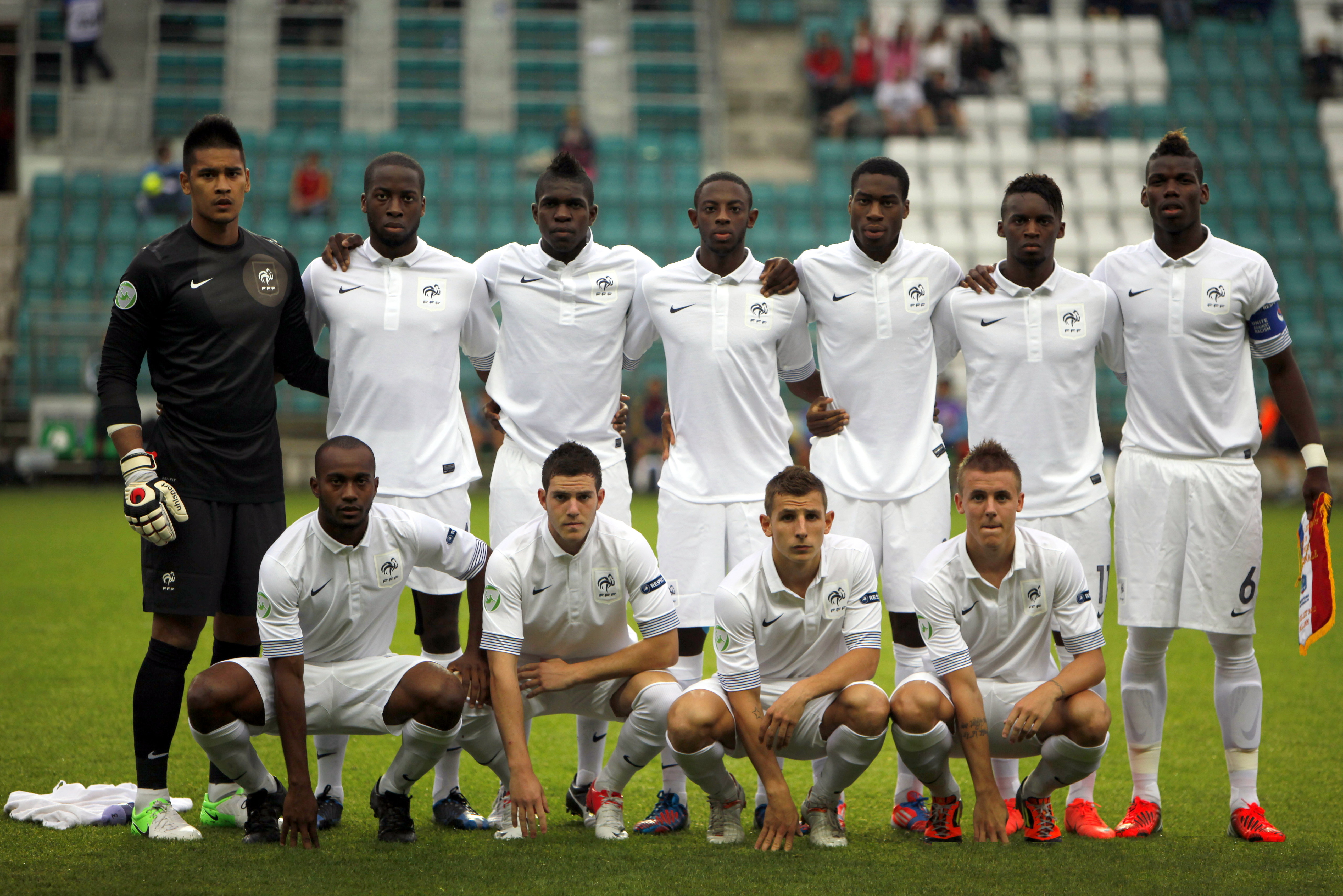 U-19 Spain vs France.